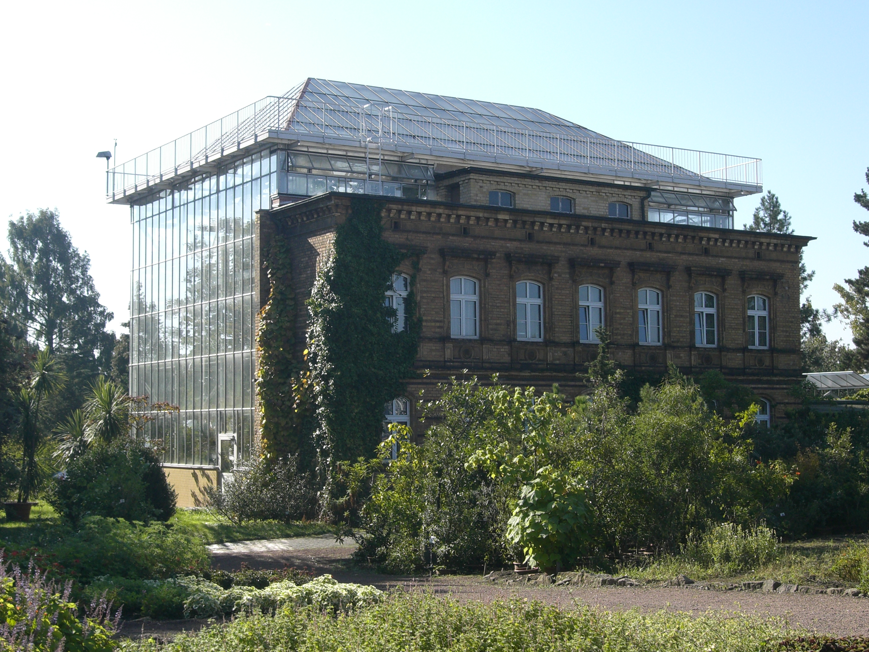 Greenhouse for Tropical plants, Halle botanical garden, Halle, Saxony-Anhalt, Germany